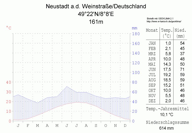 climate chart in the format by Walther and Lieth, metric, °Celsisus and millimeters, made with Geoklima 2.1